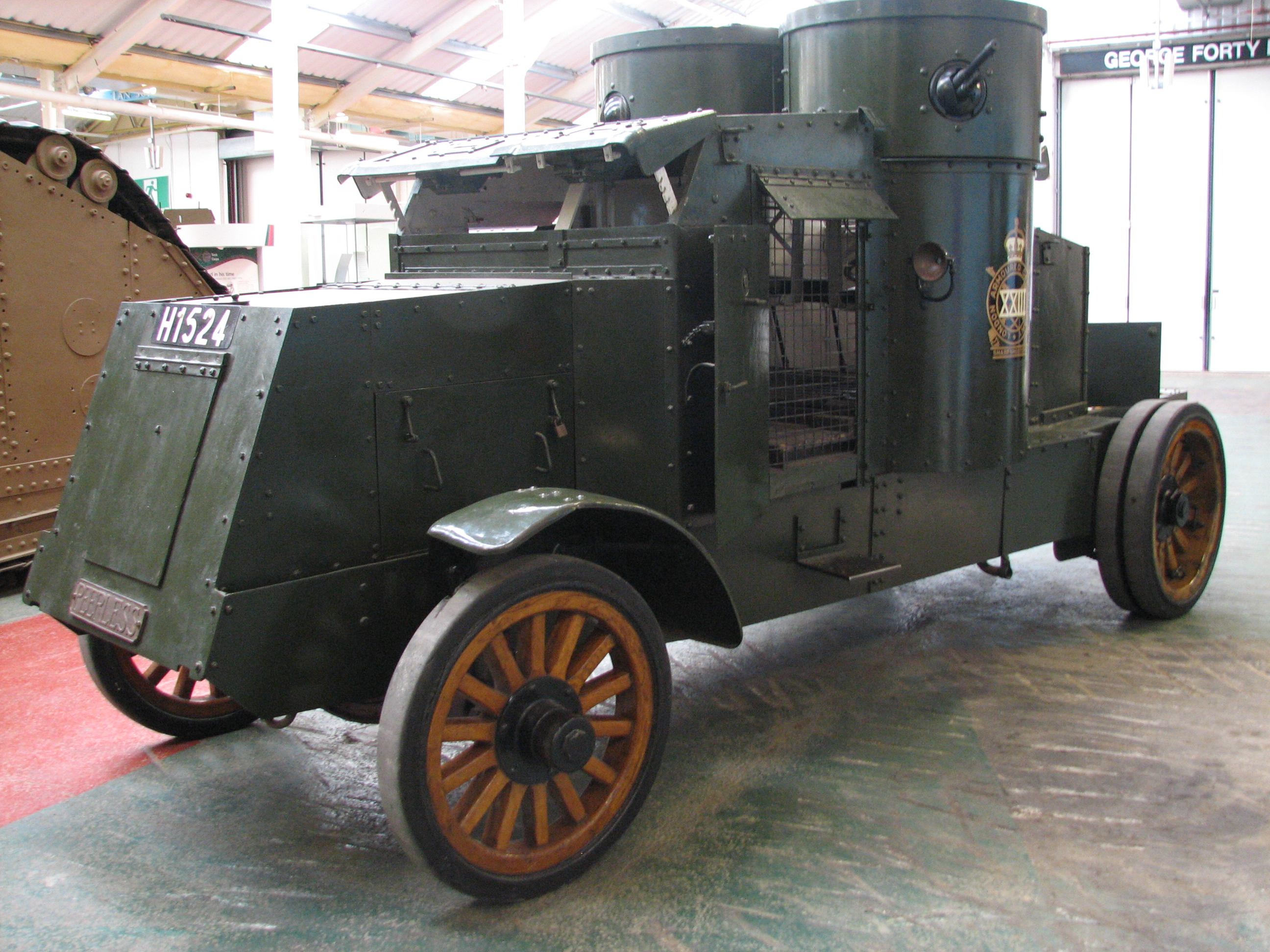 Peerless Armoured car, at Bovington Tank Museum, UK. See also File:Peerless armoured car Bovington Flickr 4774516200.jpg.